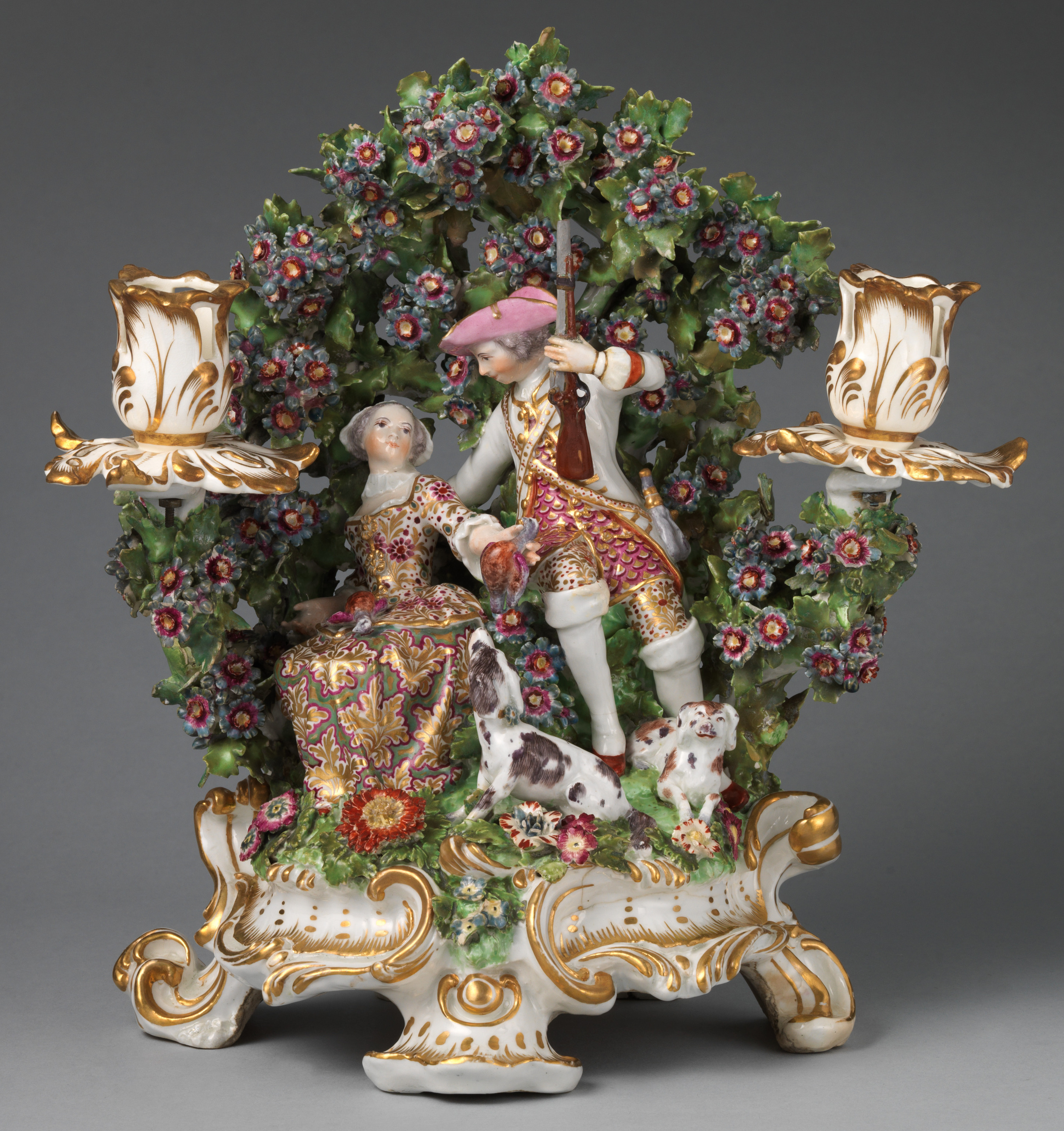 British, Chelsea; Candelabrum; Ceramics-Porcelain